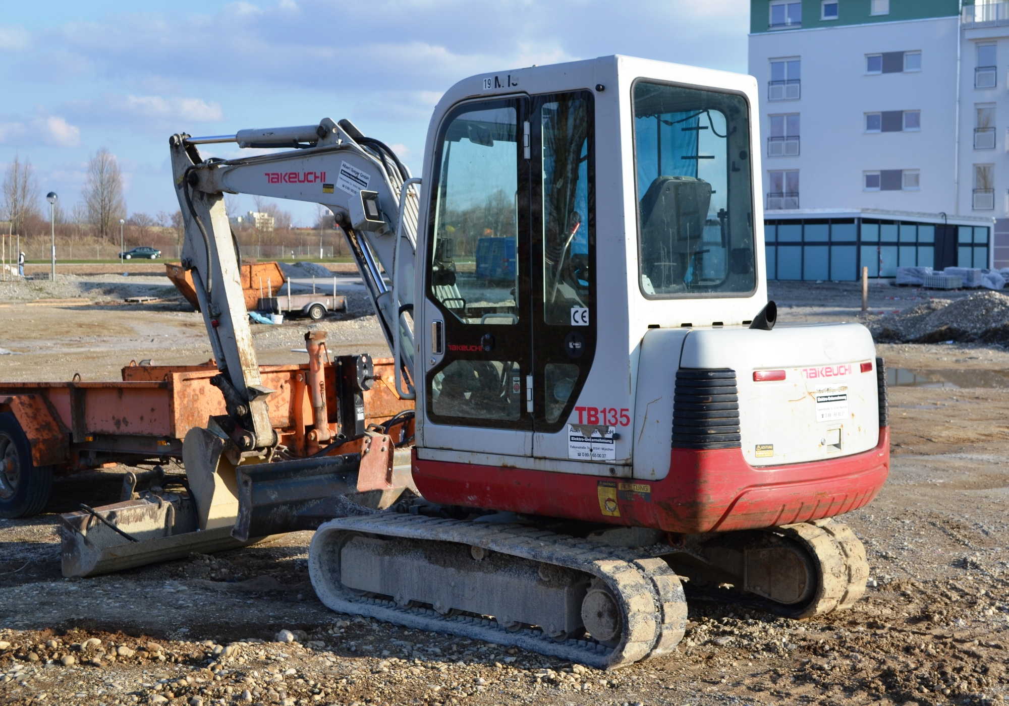 Tracked Takeuchi TB135 compact excavator.